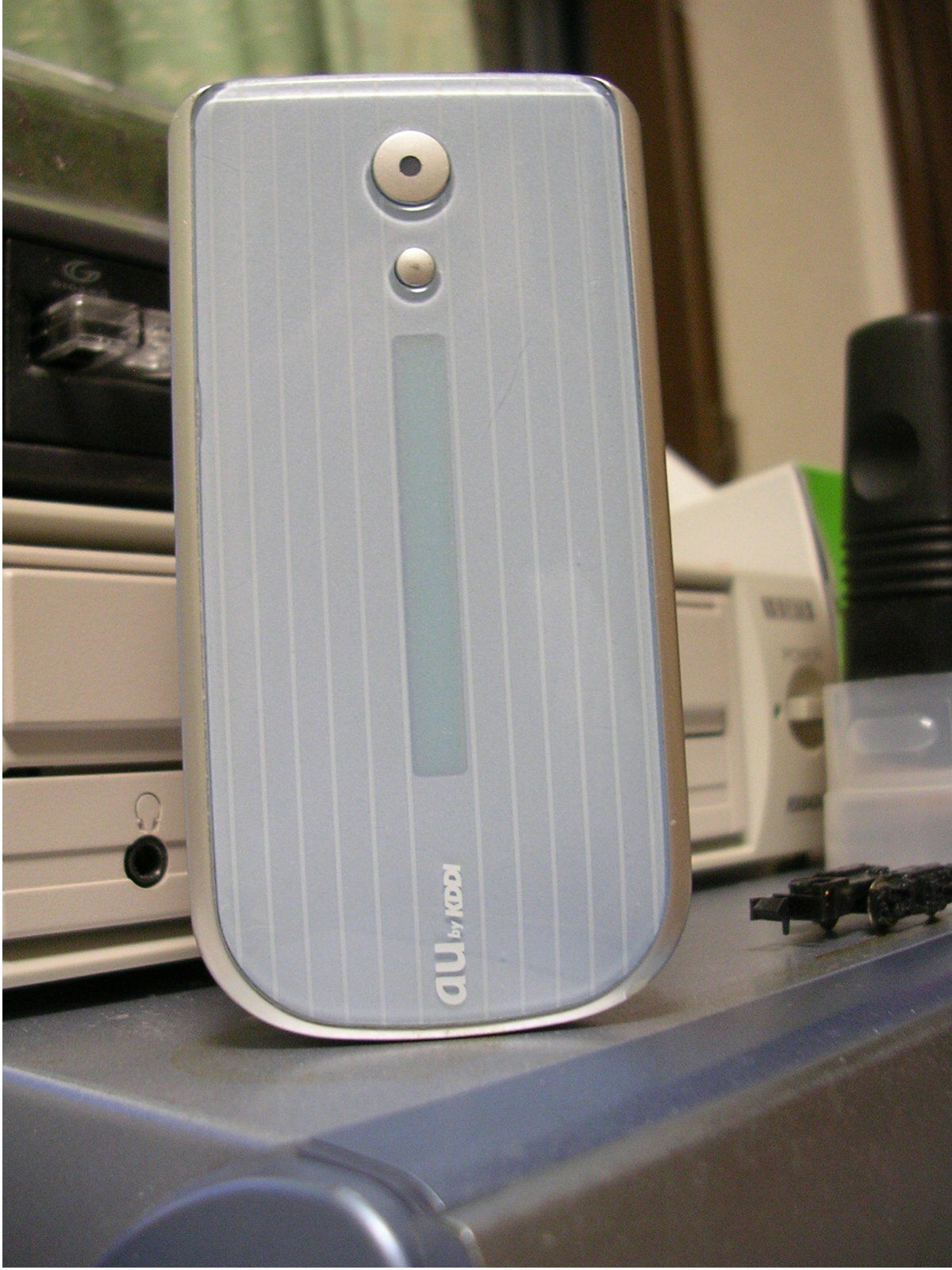 This is mobile phone which was made by Pantech